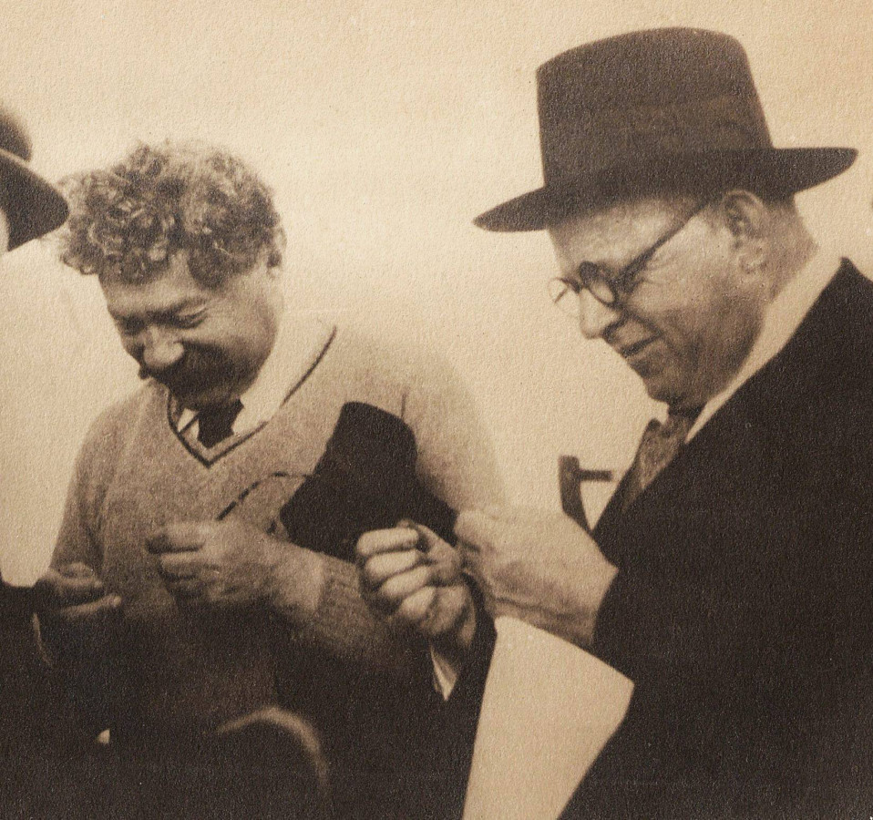 Poets Haim Nachman Bialik and Shaul Tchernichowsky in Tel Aviv